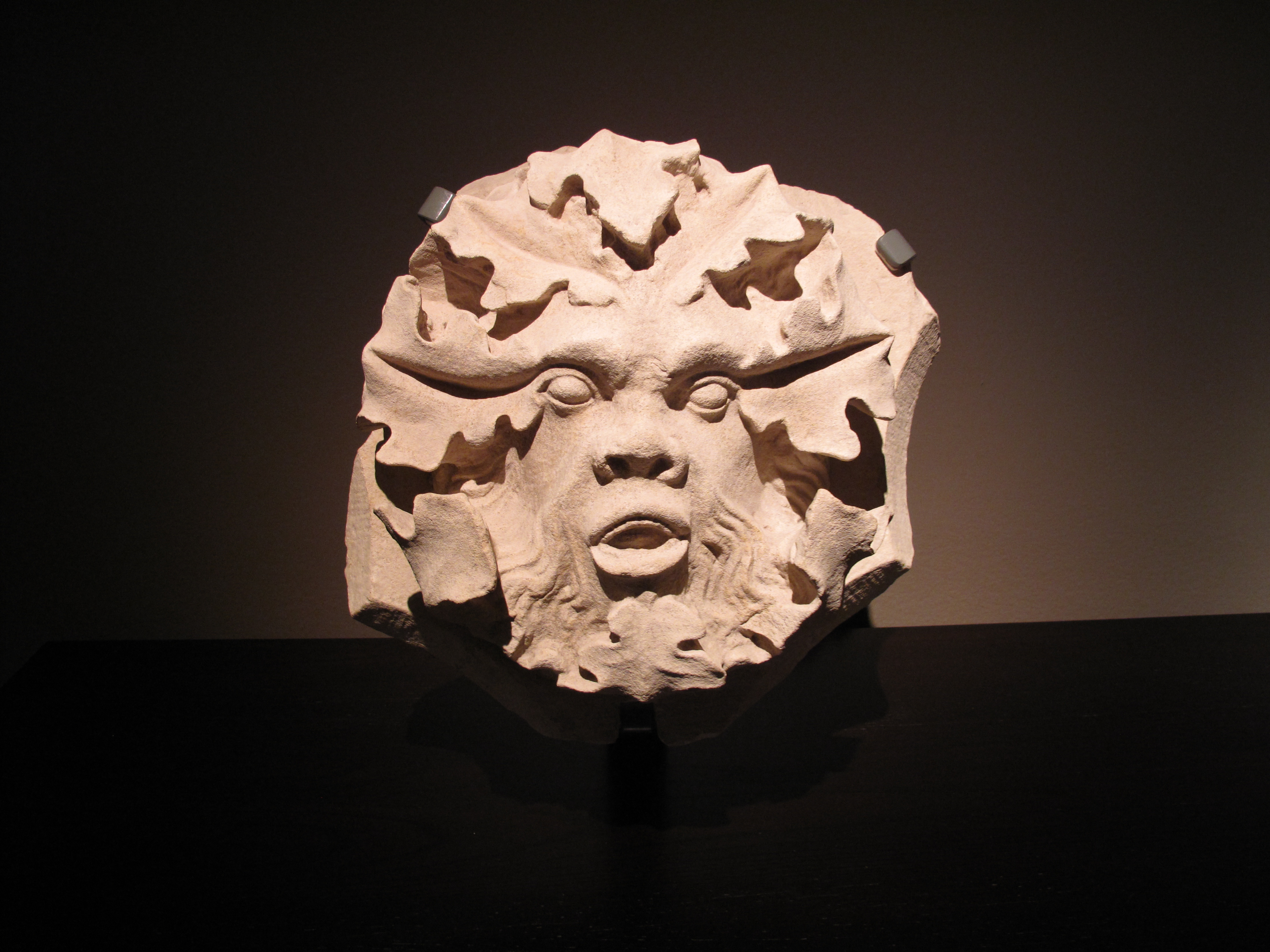 Keystone, Green man Photographié lors de l'exposition "Art et nature au Moyen Âge", Musée national des beaux-arts du Québec (Québec, Canada), 4 octobre 2012 au 6 janvier 2013